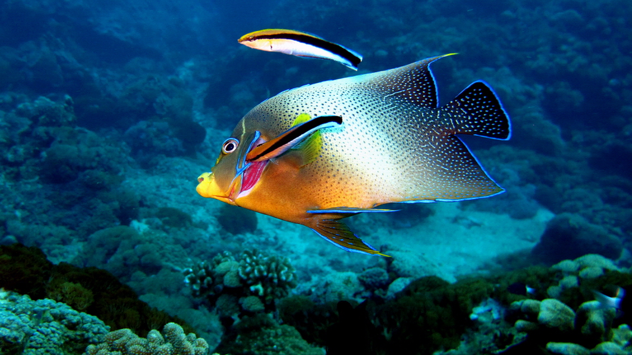 A Bluestreak cleaner wrasse (Labroides dimidiatus) is cleaning the gill of a Blue angelfish (Pomcanthus semicirculatus). This photo was taken in marine protection area in Green island ( a small island located at southeast of TAIWAN) by Vincent C. Chen on June 6, 2015